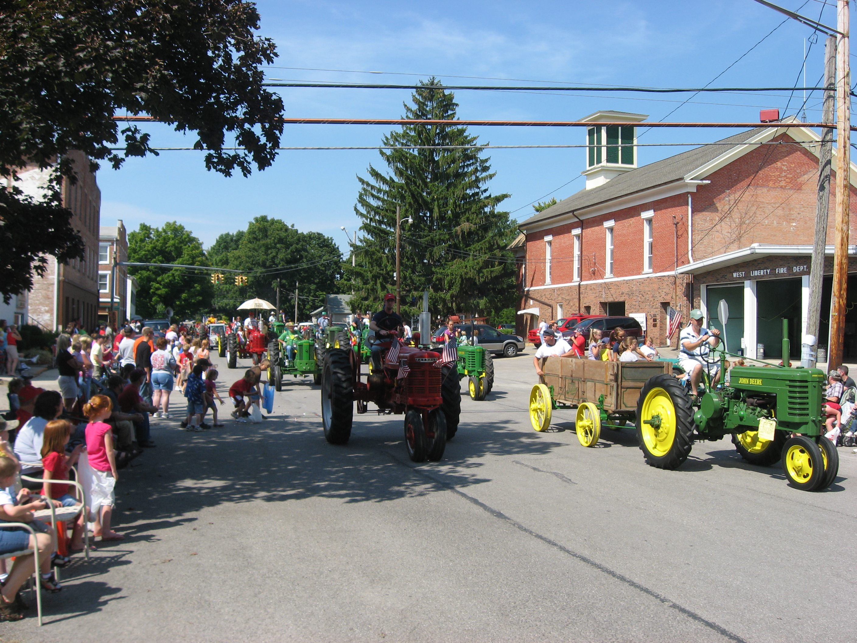 Annual Labor Day antique tractor parade in West Liberty, Ohio, United States. Photograph taken looking westward in the 100 block of E. Columbus Street, with the fire department and village hall in the background.